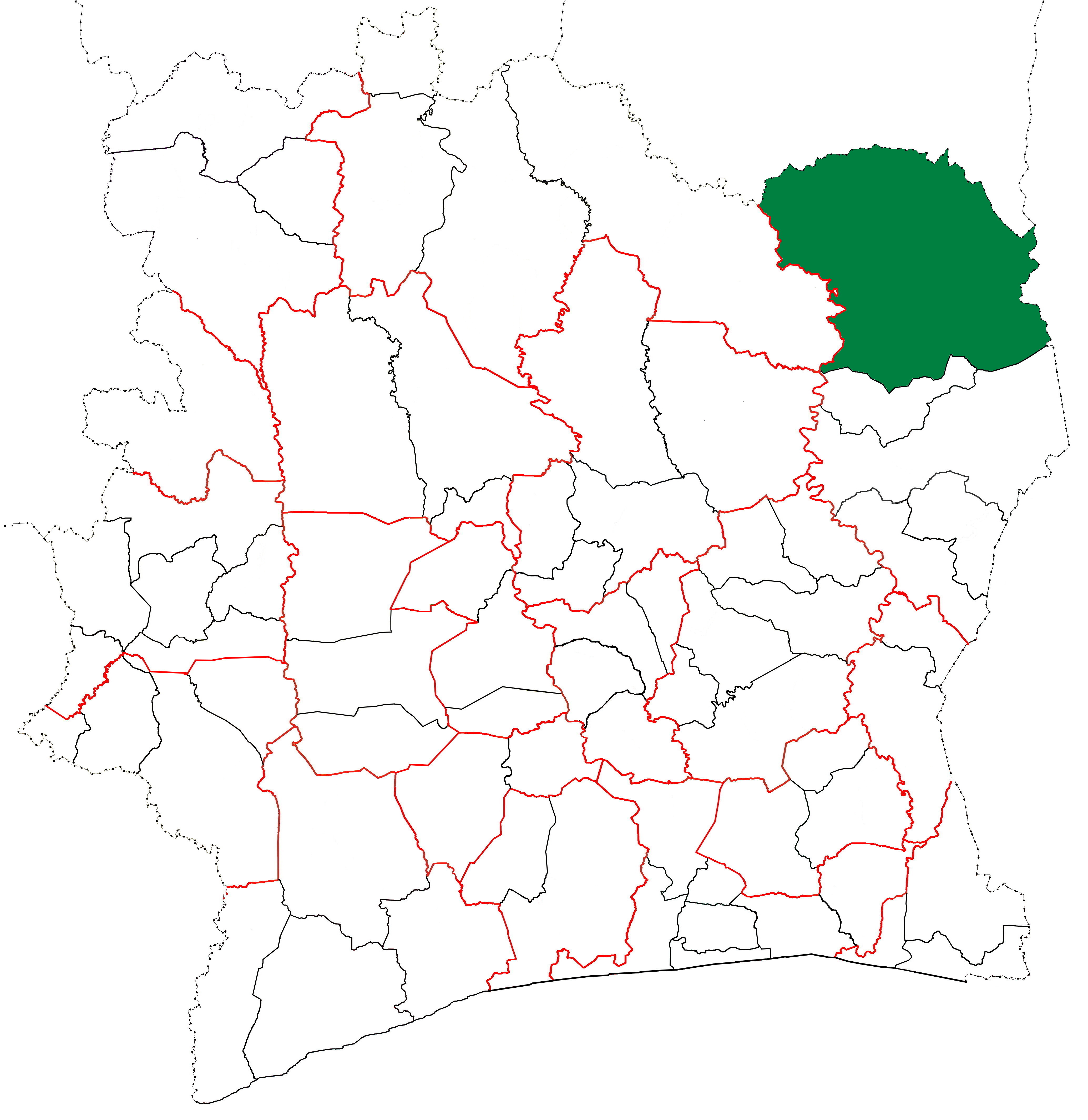 Locator map for Bouna Department in Côte d'Ivoire in 2005. Bouna Department kept these boundaries until 2011, but other subdivision boundaries began to be changed in 2008.